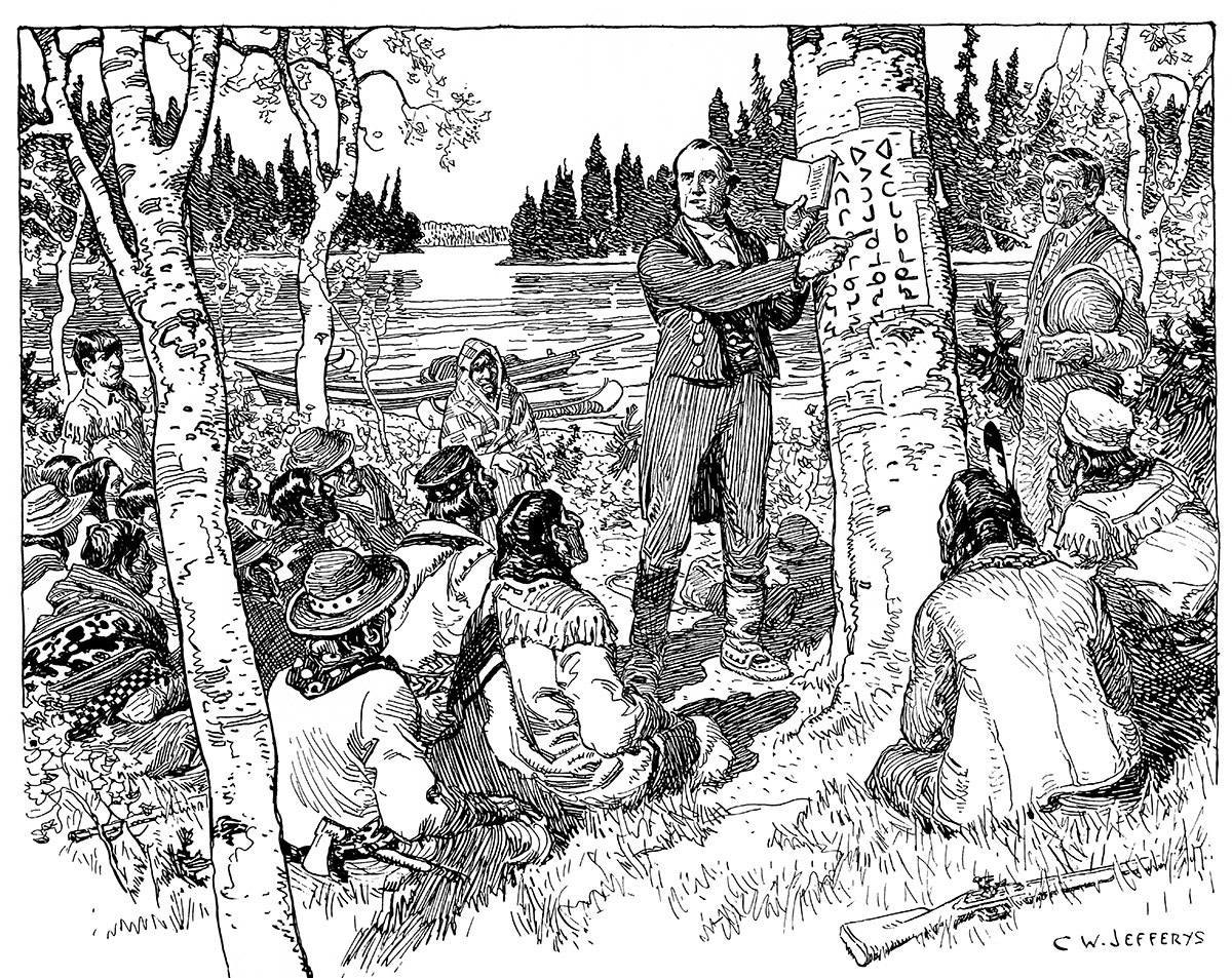 Reverend James Evans Teaching Indians His System of Cree Syllabic Writing